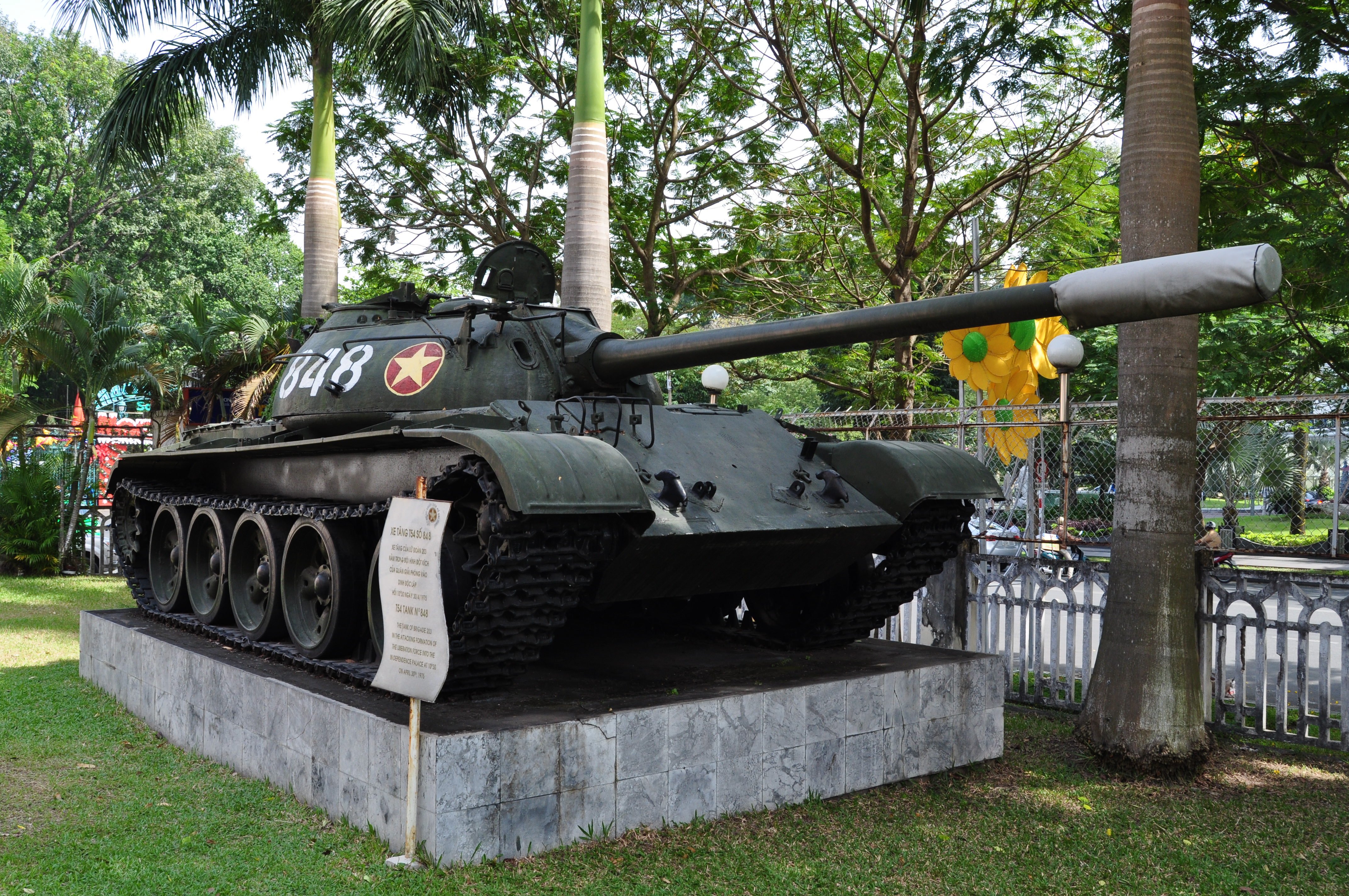 T-54 tank No. 848 at Museum of Ho Chi Minh Campaign, HCMC, Vietnam The tank of brigade 203 in the attacking formation of the liberation force into the independence palace at 10h30 on April 30th 1975